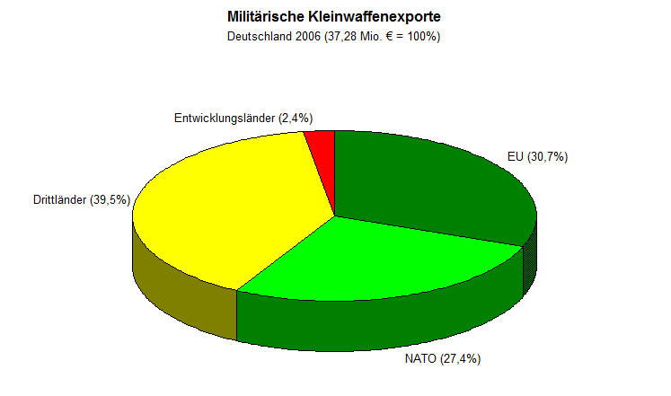 Graph of German exoports of small arms, year 2006.